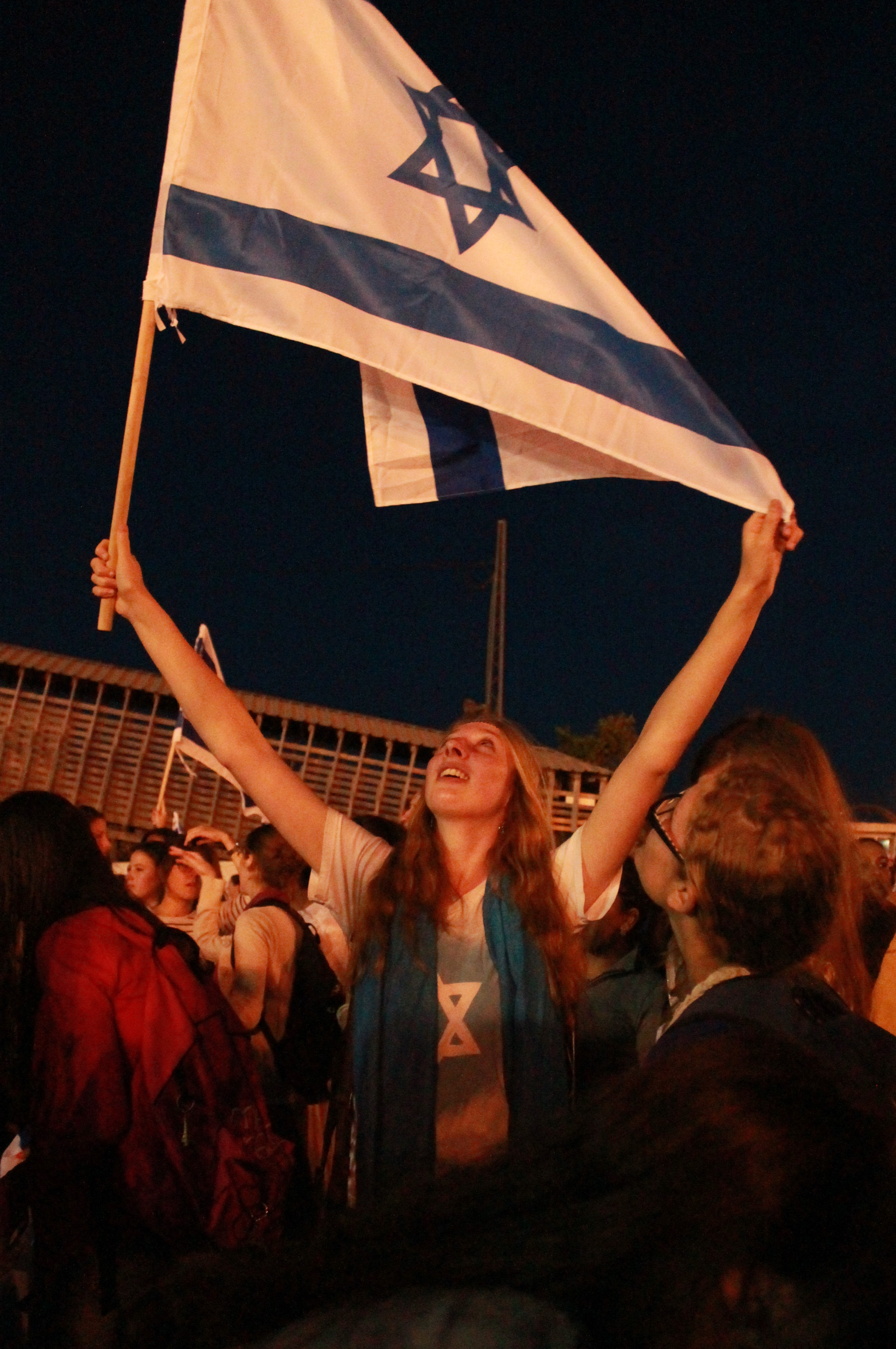 Flags dance on Jerusalem Day